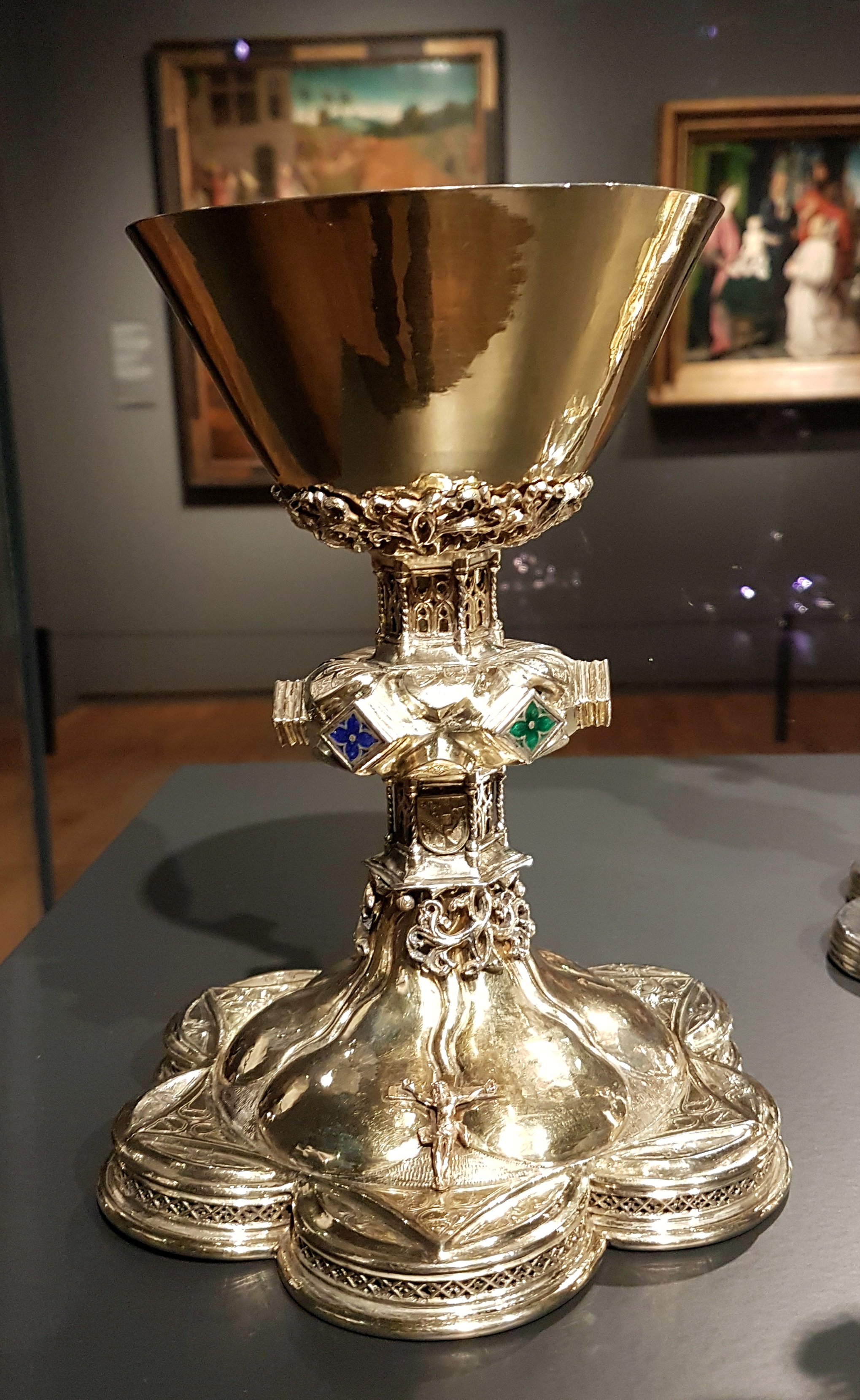 Gilded silver chalice, made for Tilman de Herckenrode, canon of the Church of St. John Evangelist in Liège, now Belgium. Attributed to Léonard de Bommershoven, Liège, 1519. Collection Rijksmuseum Amsterdam, Netherlands, inv. nr. BK-16090